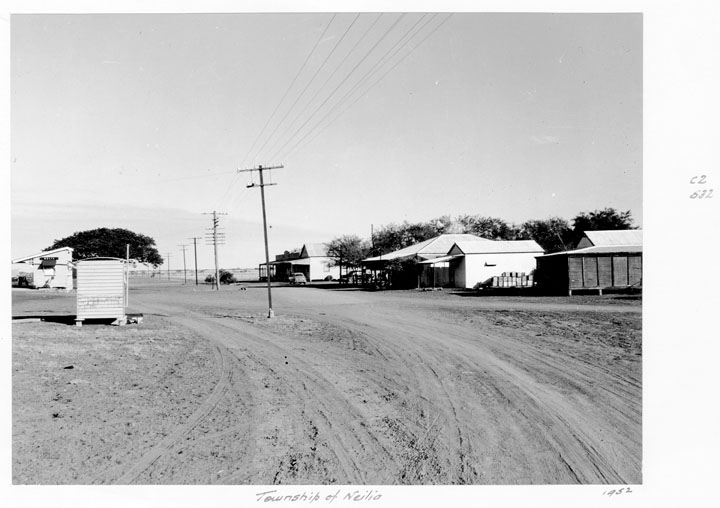 Township of Nelia.